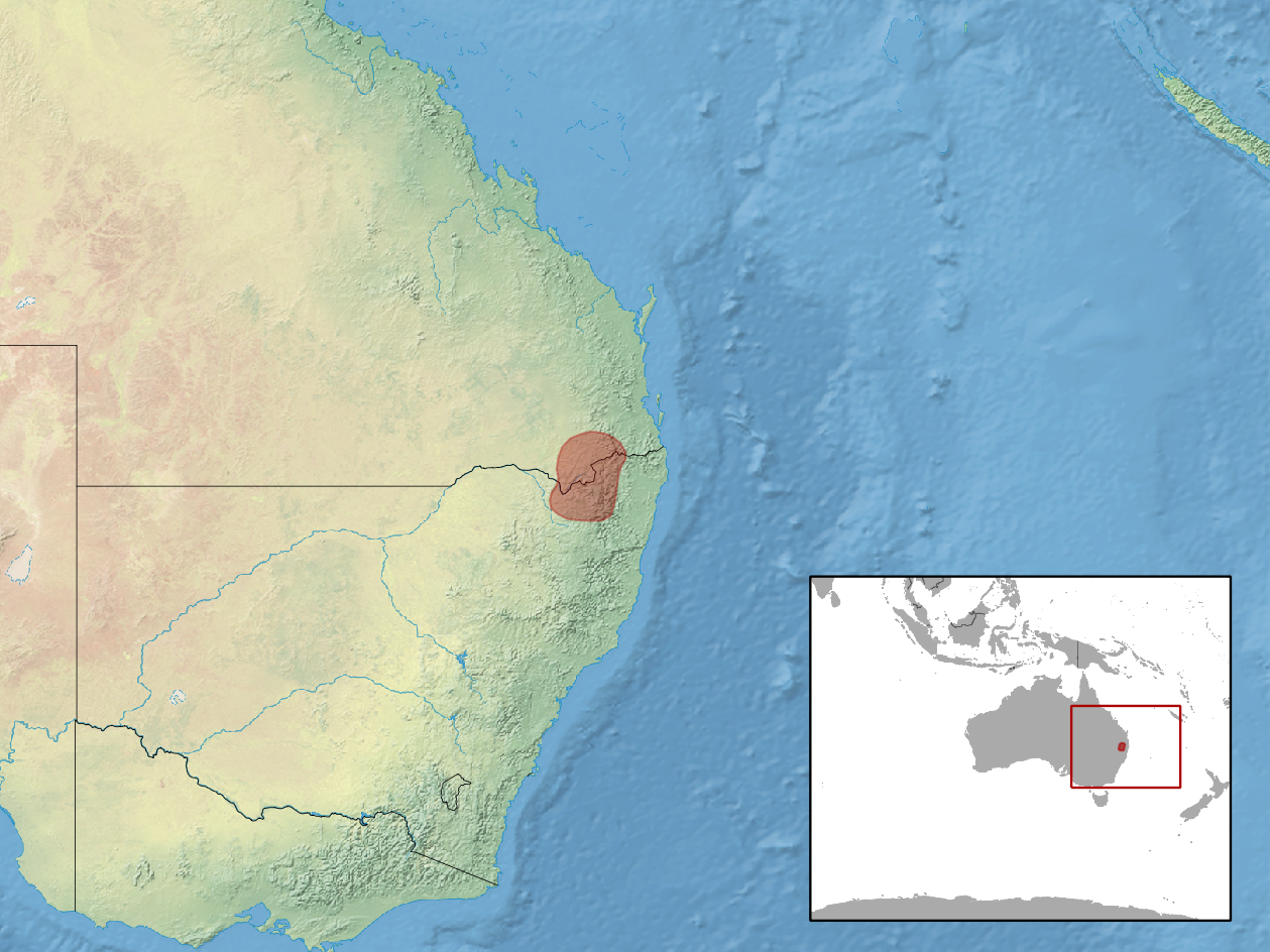 geographic distribution of Eulamprus tryoni